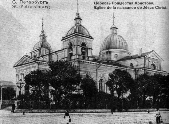 Church of the Nativity of Christ in Peski on postal card.